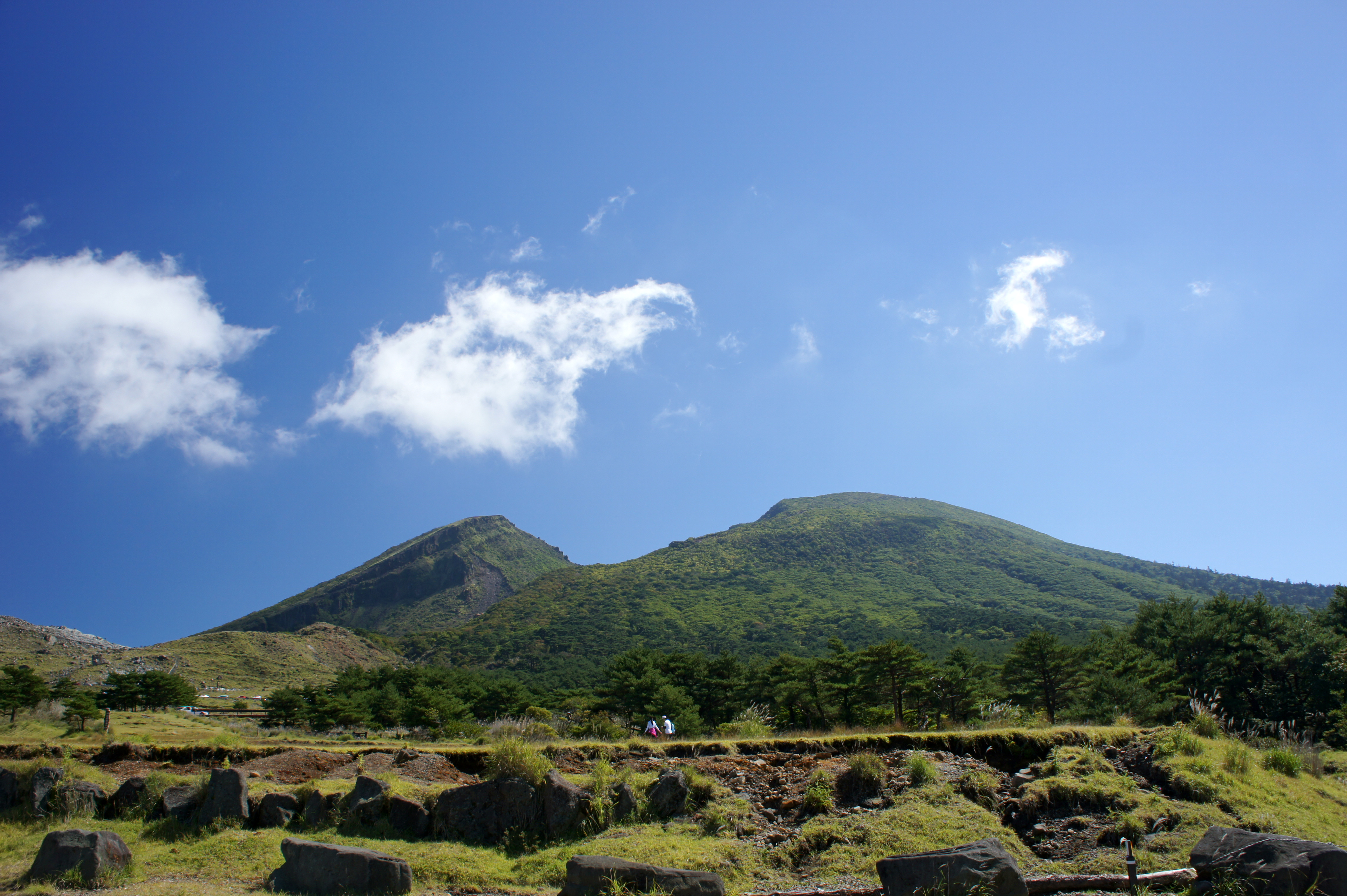 Ebin Plateau in Ebino, Miyazaki prefecture, Japan.